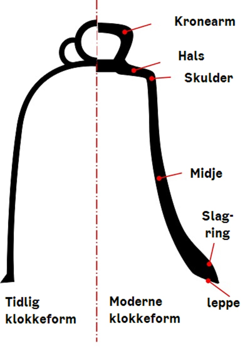 Anatomy of early and modern bell